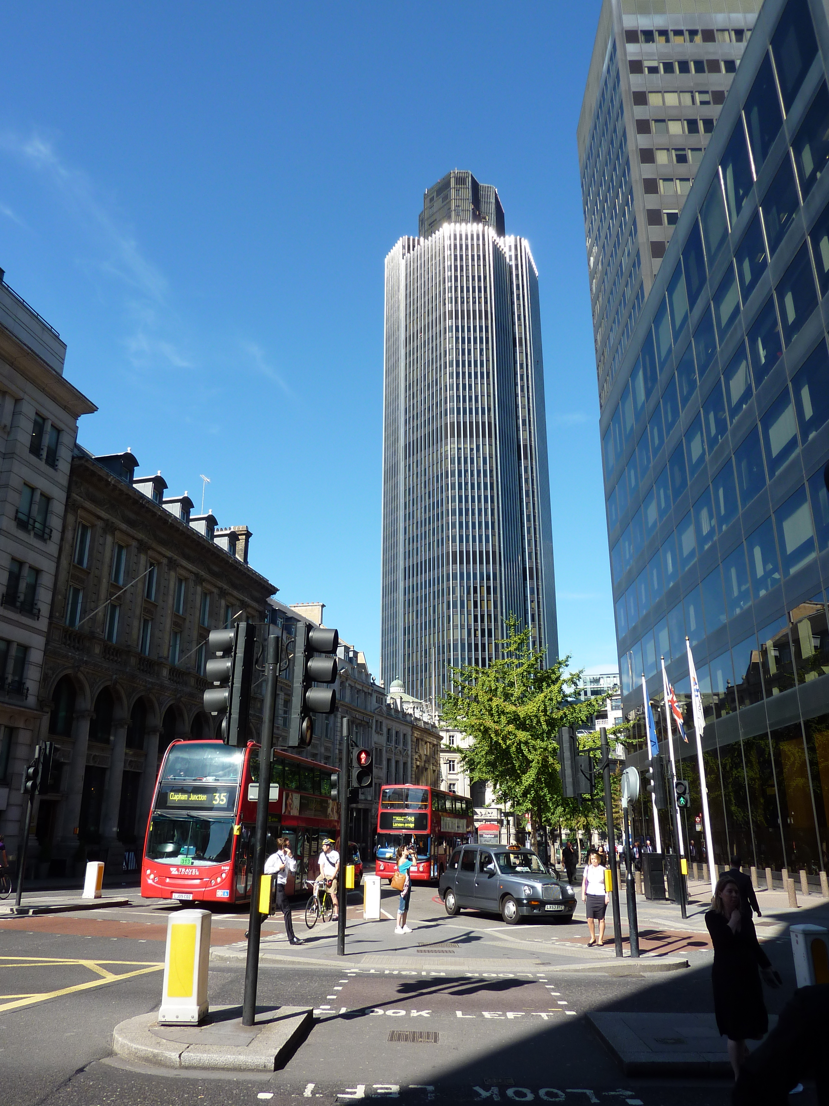 View of Tower 42 from the corner of Gracechurch and Leadenhall Sts.